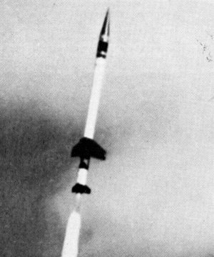 Initially, the RAE Skylark is a British ramp-launched, high-altitude research or sounding rocket developed by the Royal Aircraft Establishment at Farnborough. It has been used by many research organizations including NASA for X-ray astronomy research. Credit: ESA.